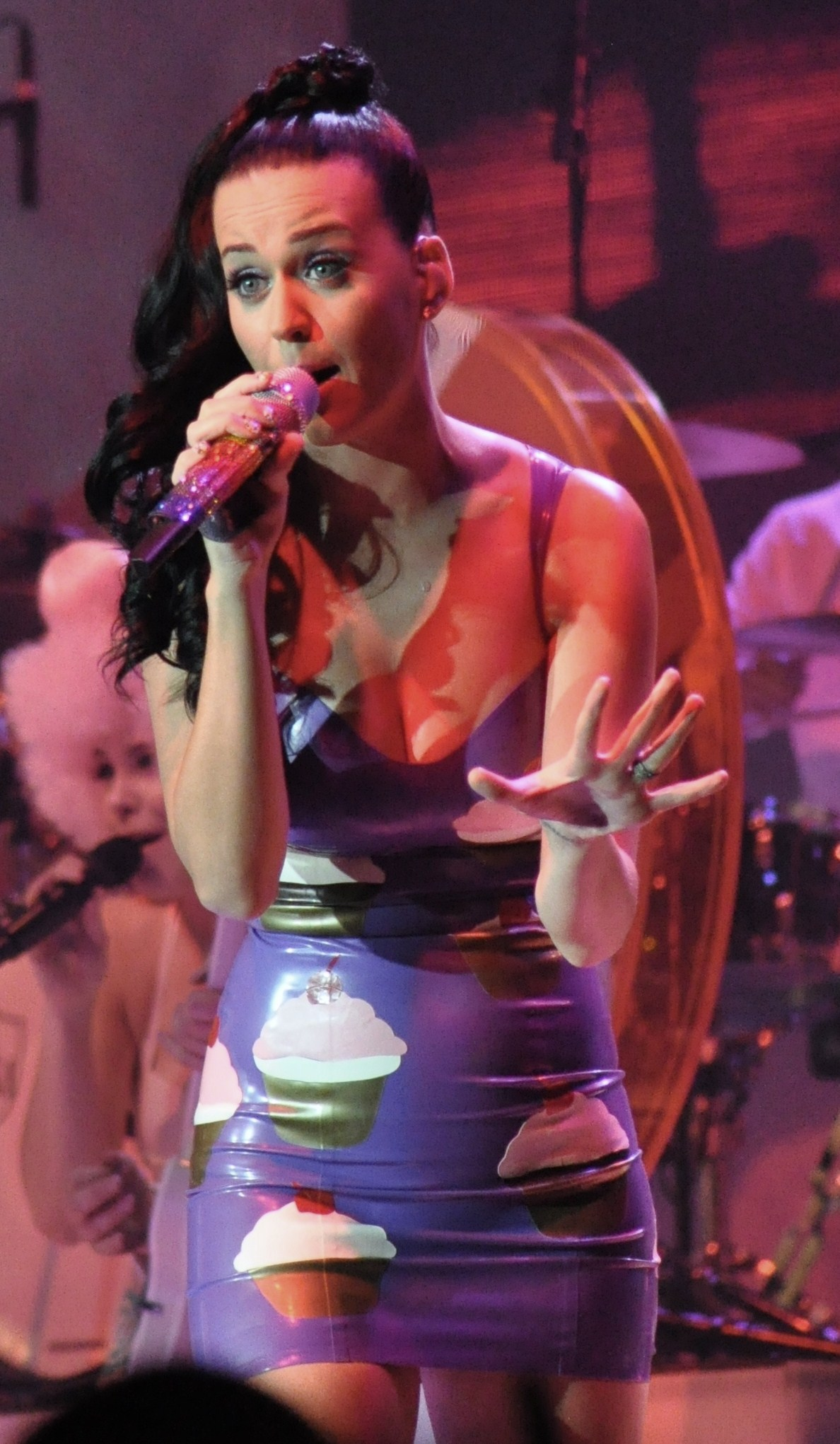 Katy Perry performing in November 2010.